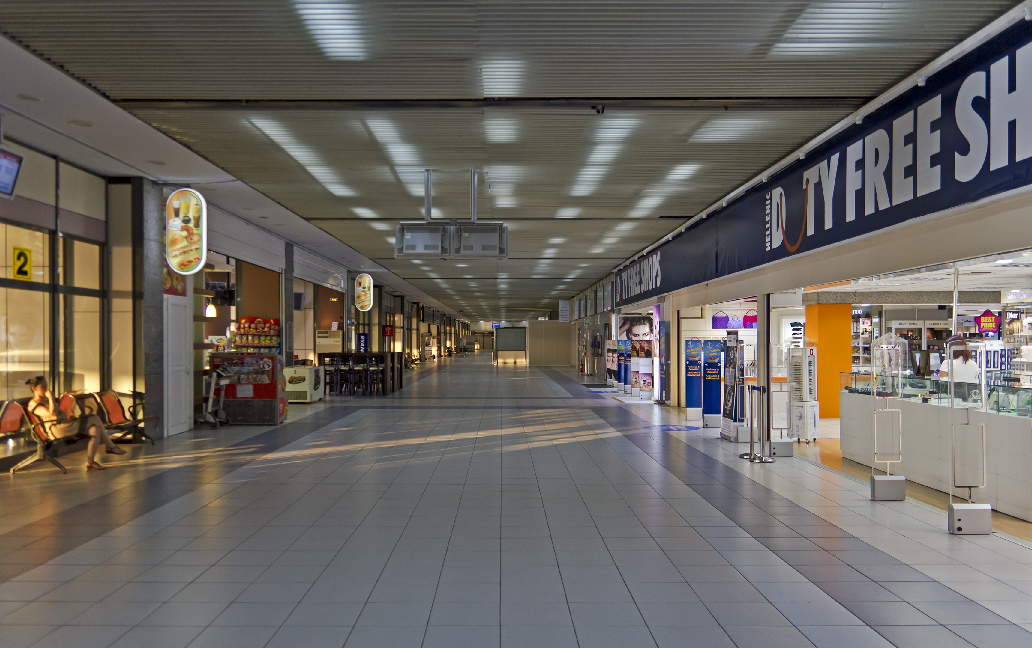 Airport of Rhodes, Greece. Duty free zone.